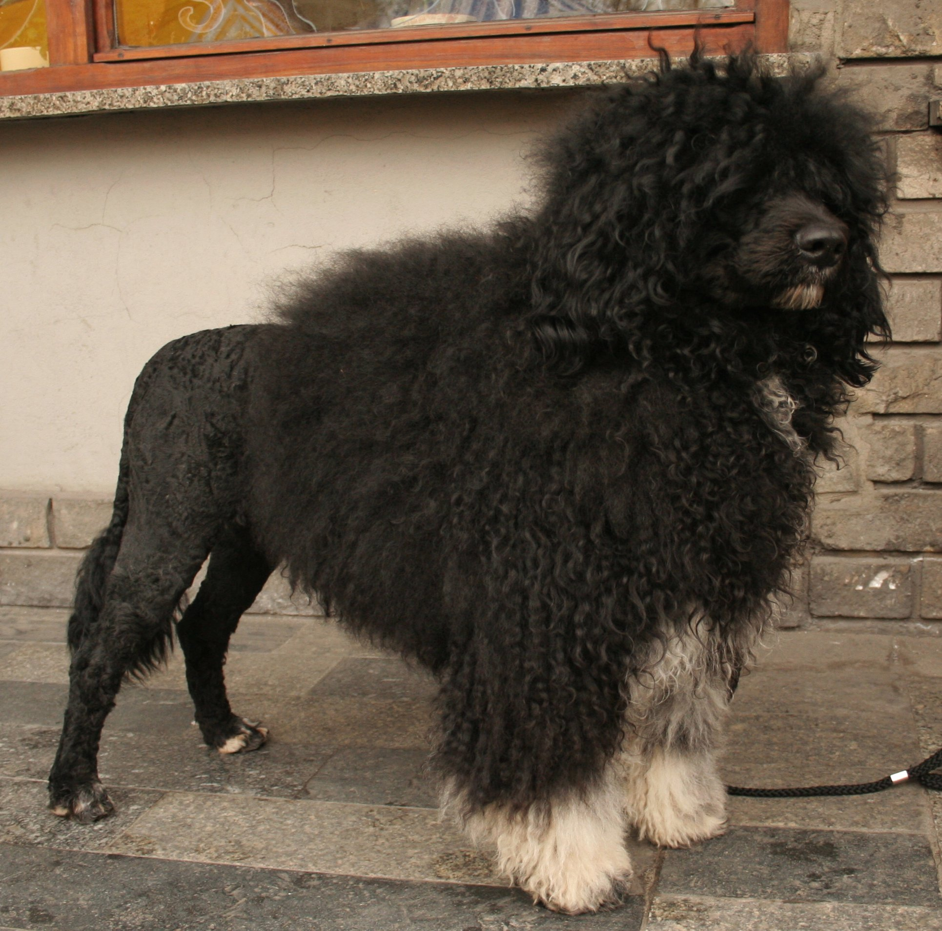 Portuguese Water Dog during a dog show in Katowice, Poland